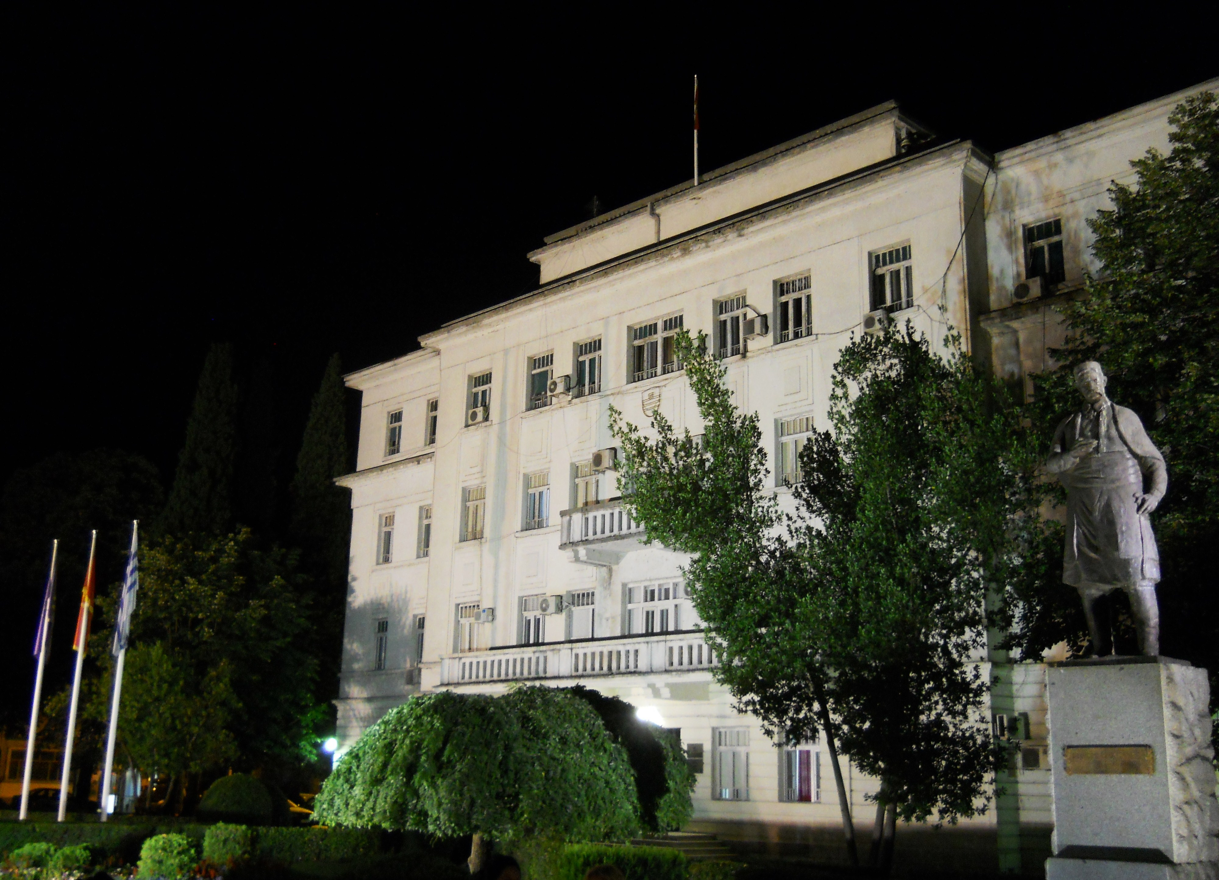 Podgorica City Hall, with the monument to Marko Miljanov